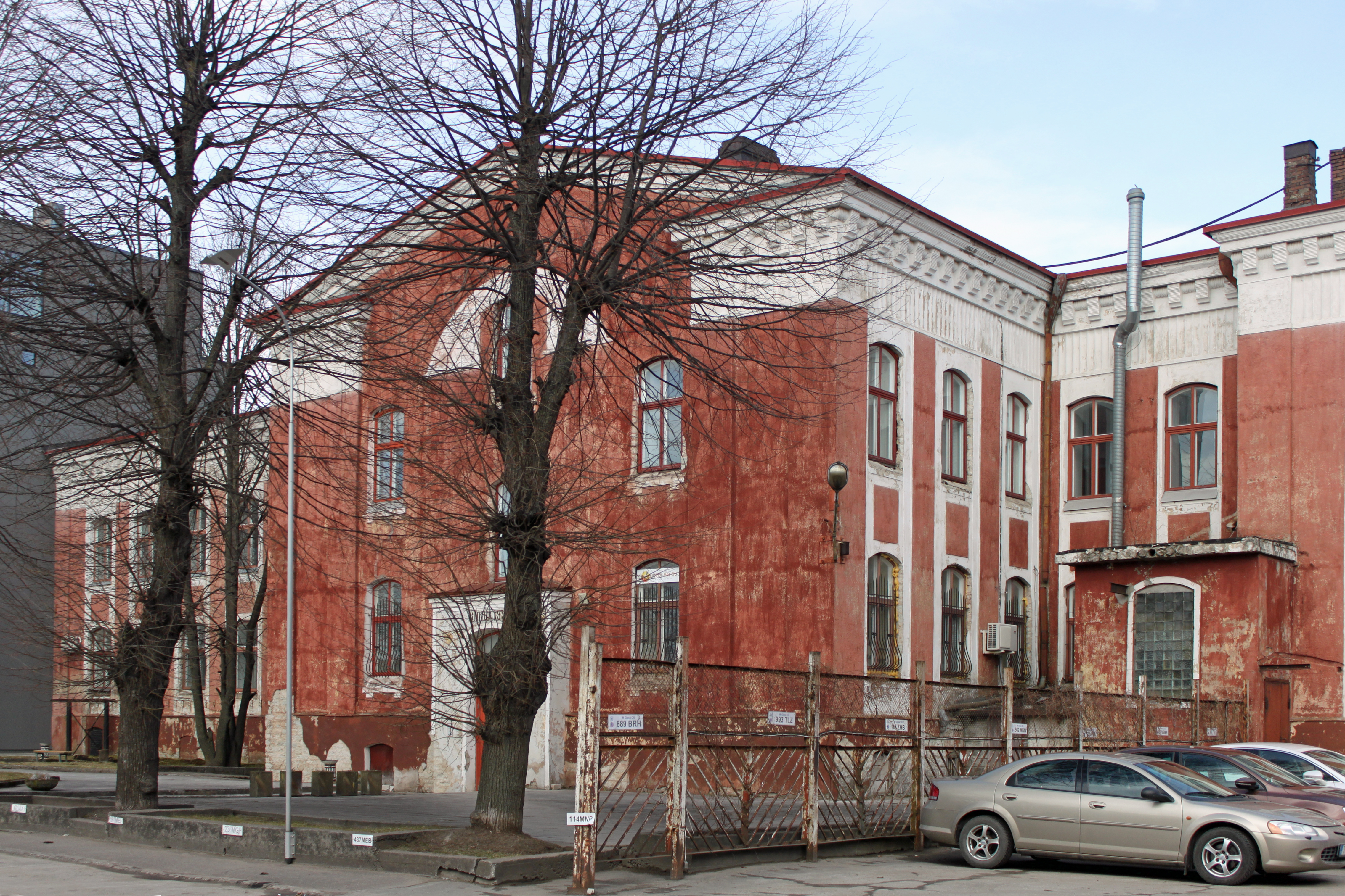 Former administrative building of Volta factory in April 2017